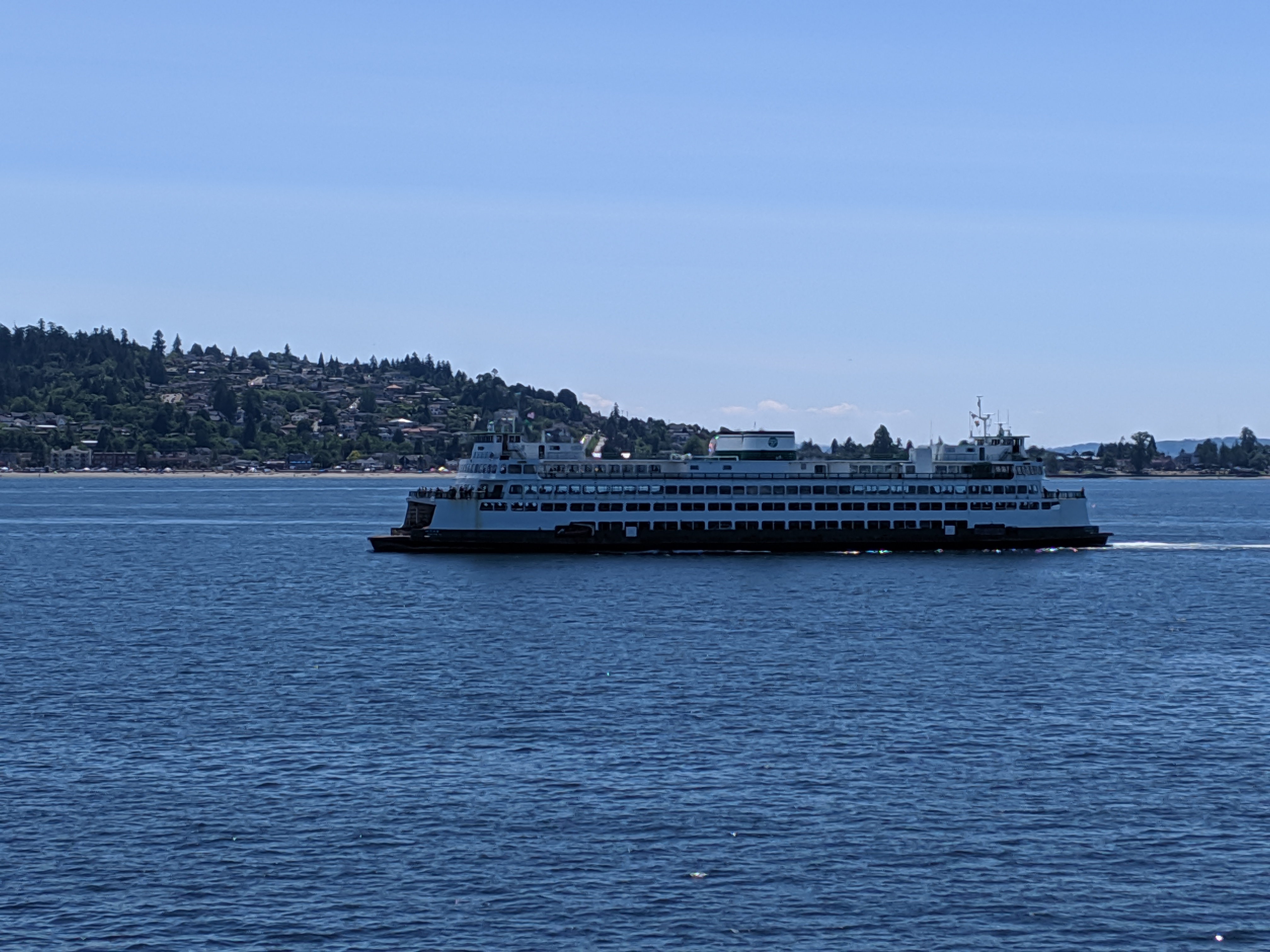 Taken from the sun deck of the Jumbo Mark II-class ferry MV Tacoma, the MV Hyak makes one of her final crossings on the Seattle-Bremerton route. She would make her final sailing from Seattle with a late 9:05 PM departure.